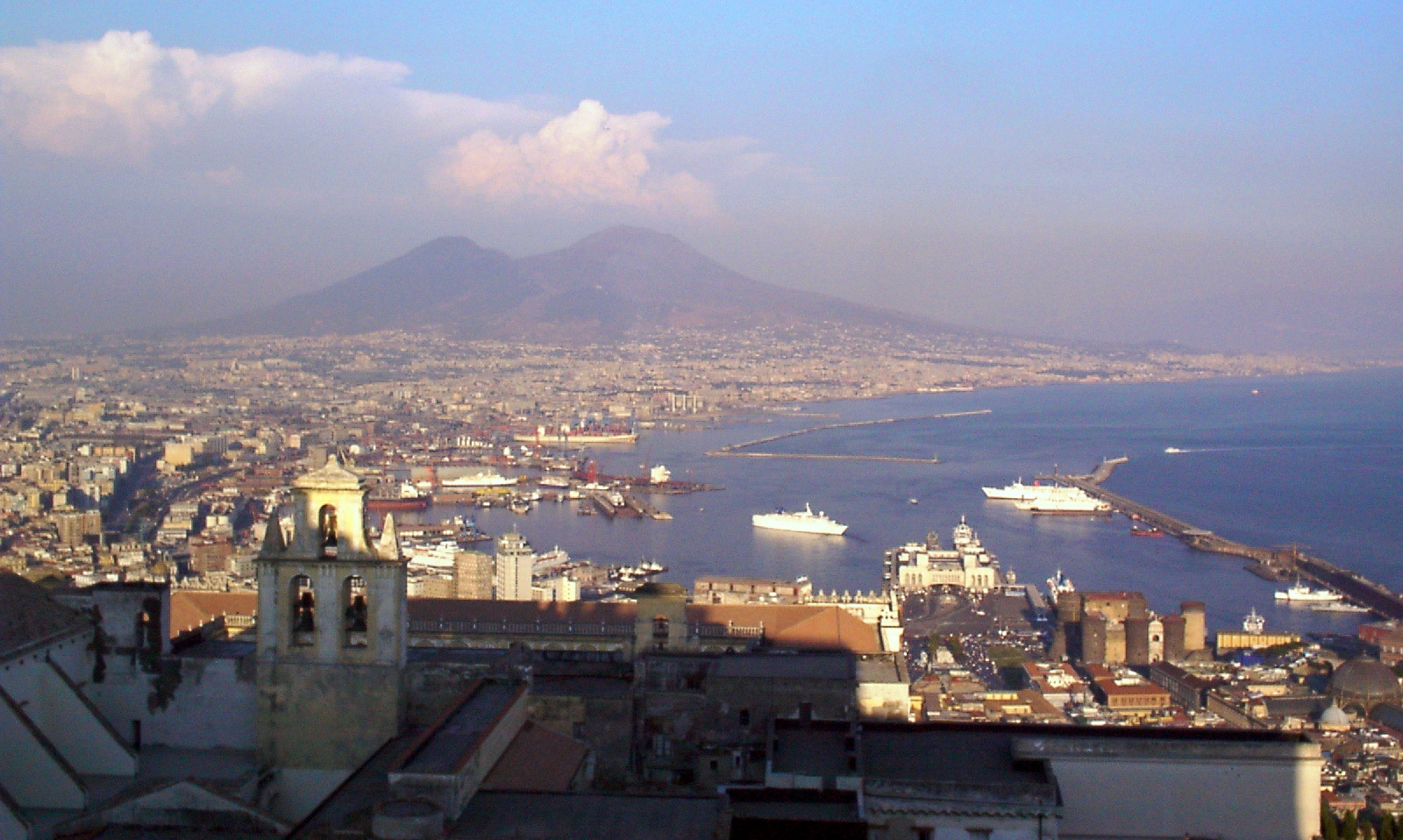 Naples,Italy.